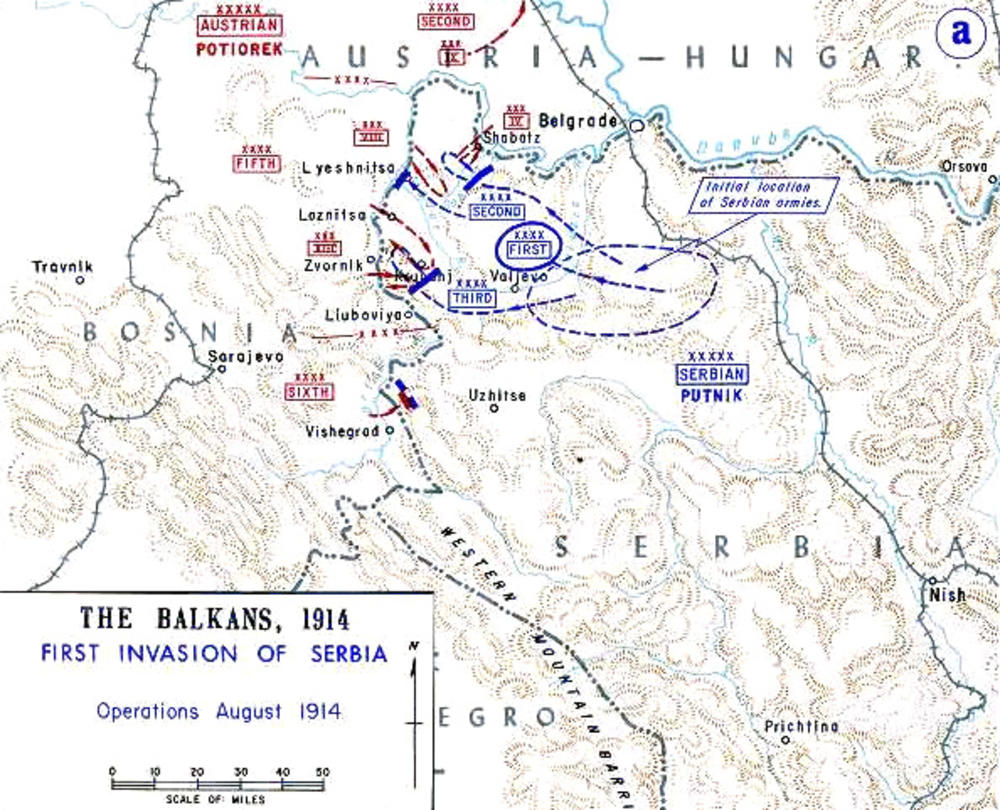 This map shows the initial attacks by the Austrian army against Serbia in August of 1914. This map was created by the Department of Military Art and Engineering, at the U.S. Military Academy (West Point). The initial version was created under the supervision of General Vincent Esposito in 1959. It is now available on the West Point web site at: The map image has been cropped to remove unneeded territory.